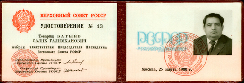 Identity cards of the Deputy Chairman of the Presidium of the Supreme Council of the RSFSR - Russian Soviet Federative socialist Republic